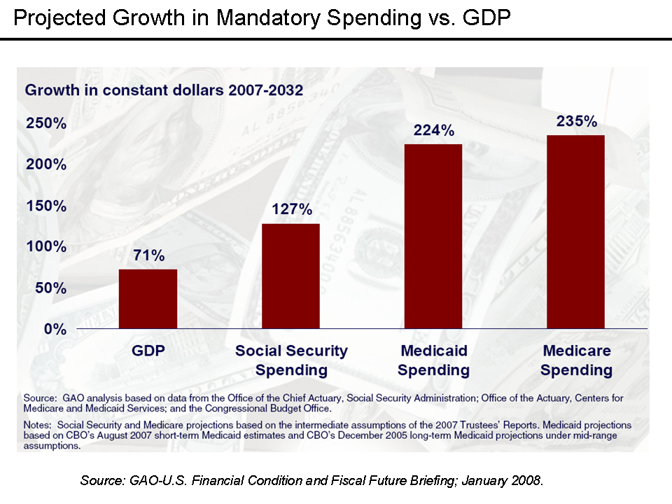 I created this as a simple copy of a GAO chart